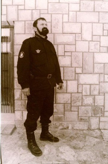 Blaž Kraljević, the commander of the Croatian Defence Forces in Herzegovina during the Bosnian War